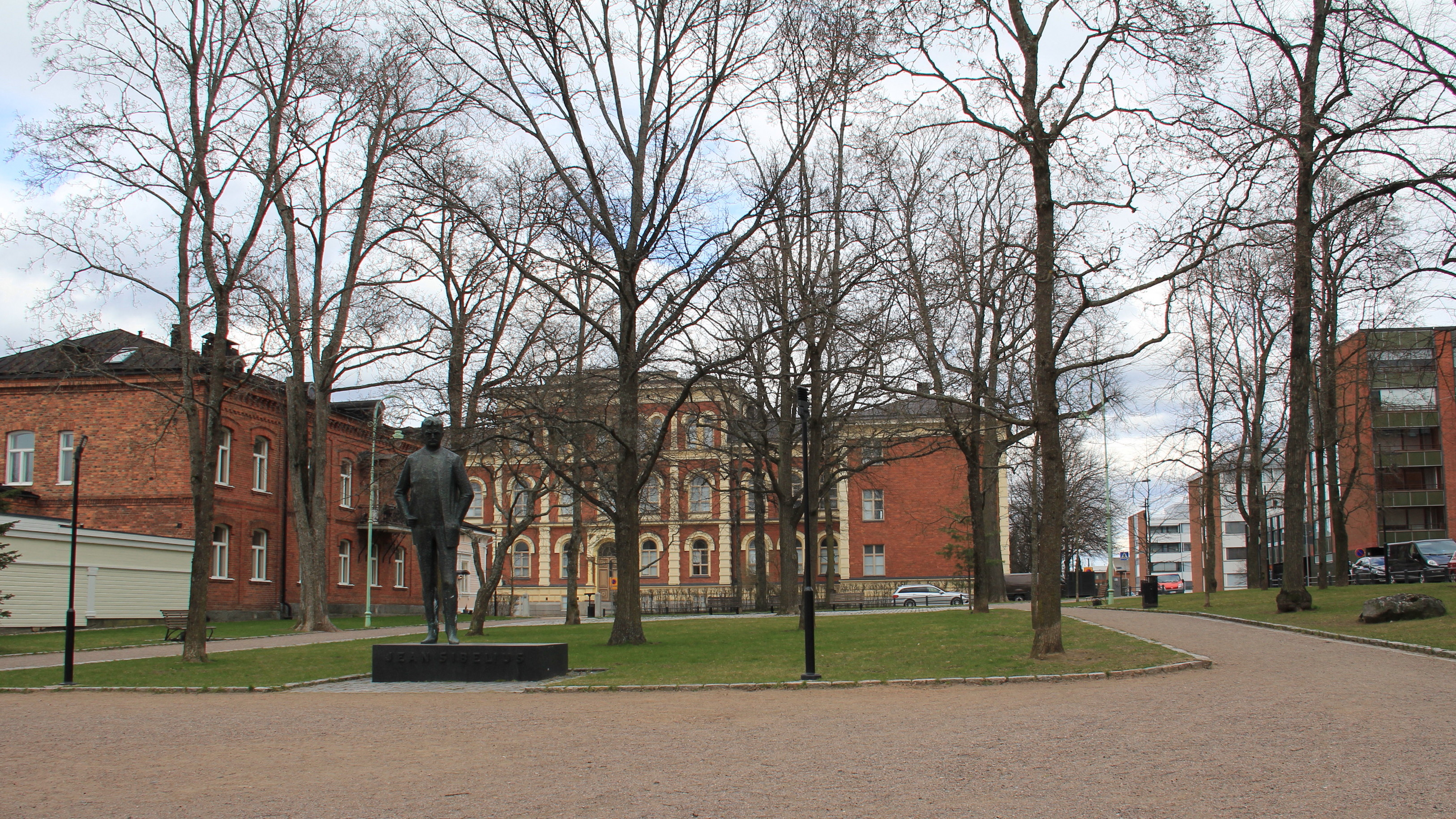 Sibelius Park, Hämeenlinna, Finland. - Eastern part of park. Statue of young Jean Sibelius by Kain Tapper (1964).